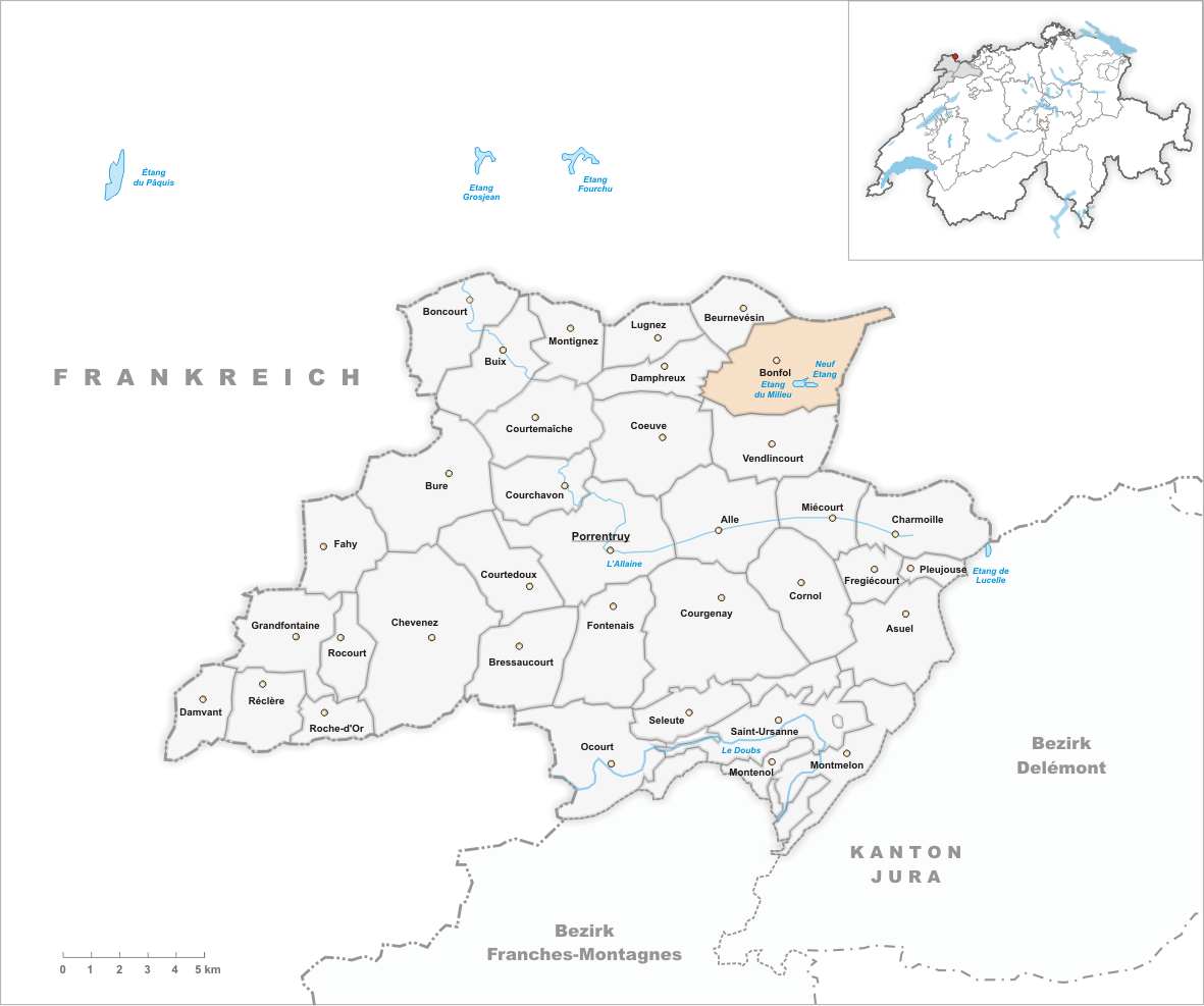 Municipality Bonfol Artist: Tschubby